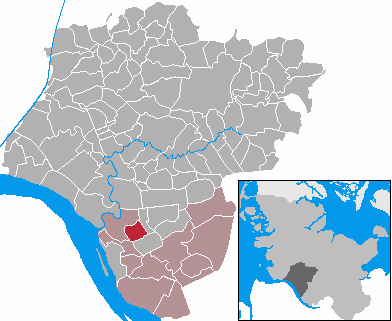 This map shows the area of the municipality Krempdorf in the Kreis (district) Steinburg, Schleswig-Holstein, Germany.